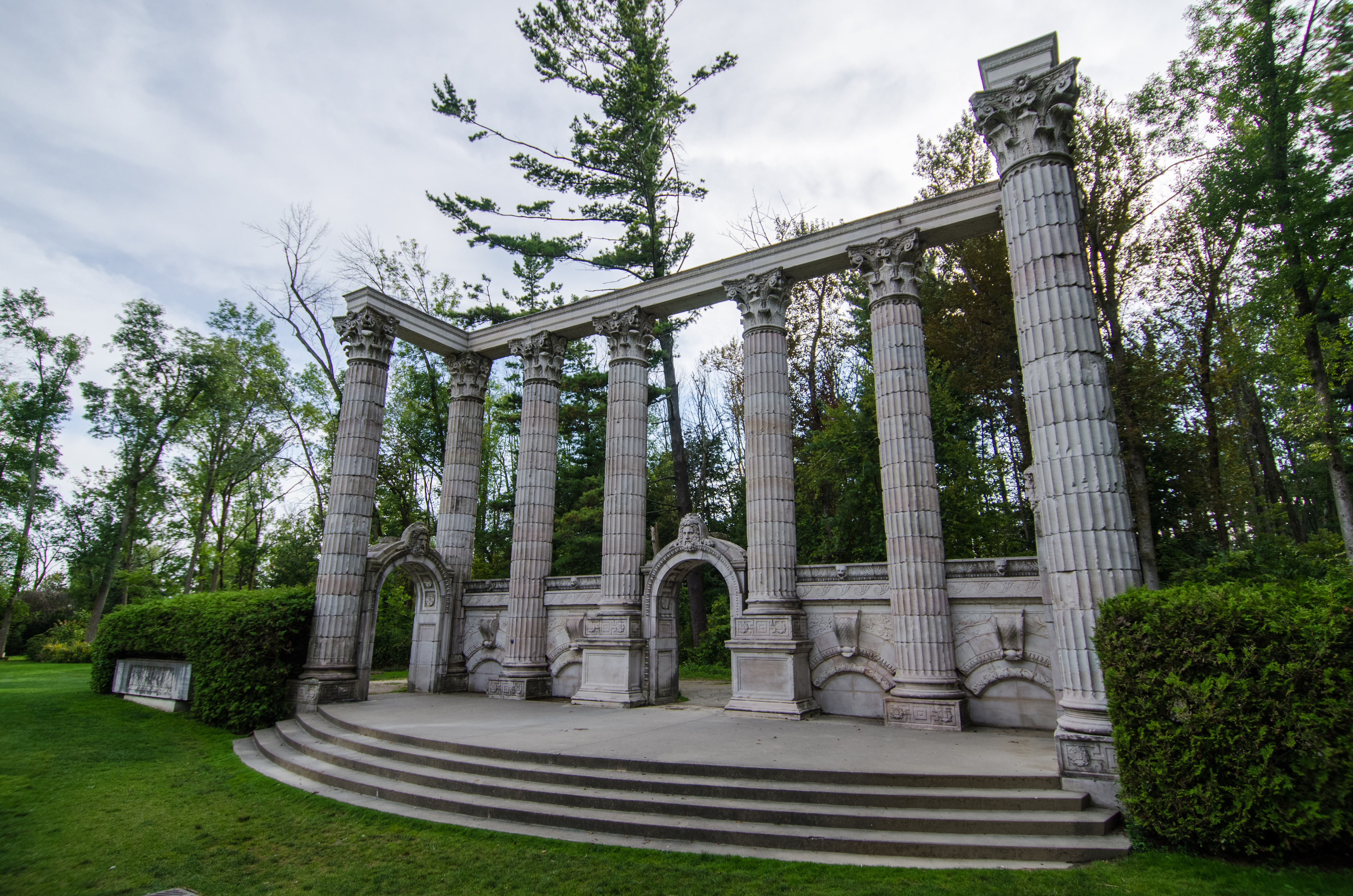 Seen in The Skulls and the Carmilla finale.